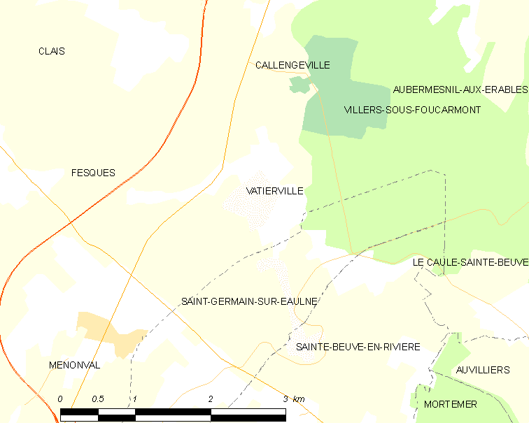 Map of French municipality Vatierville